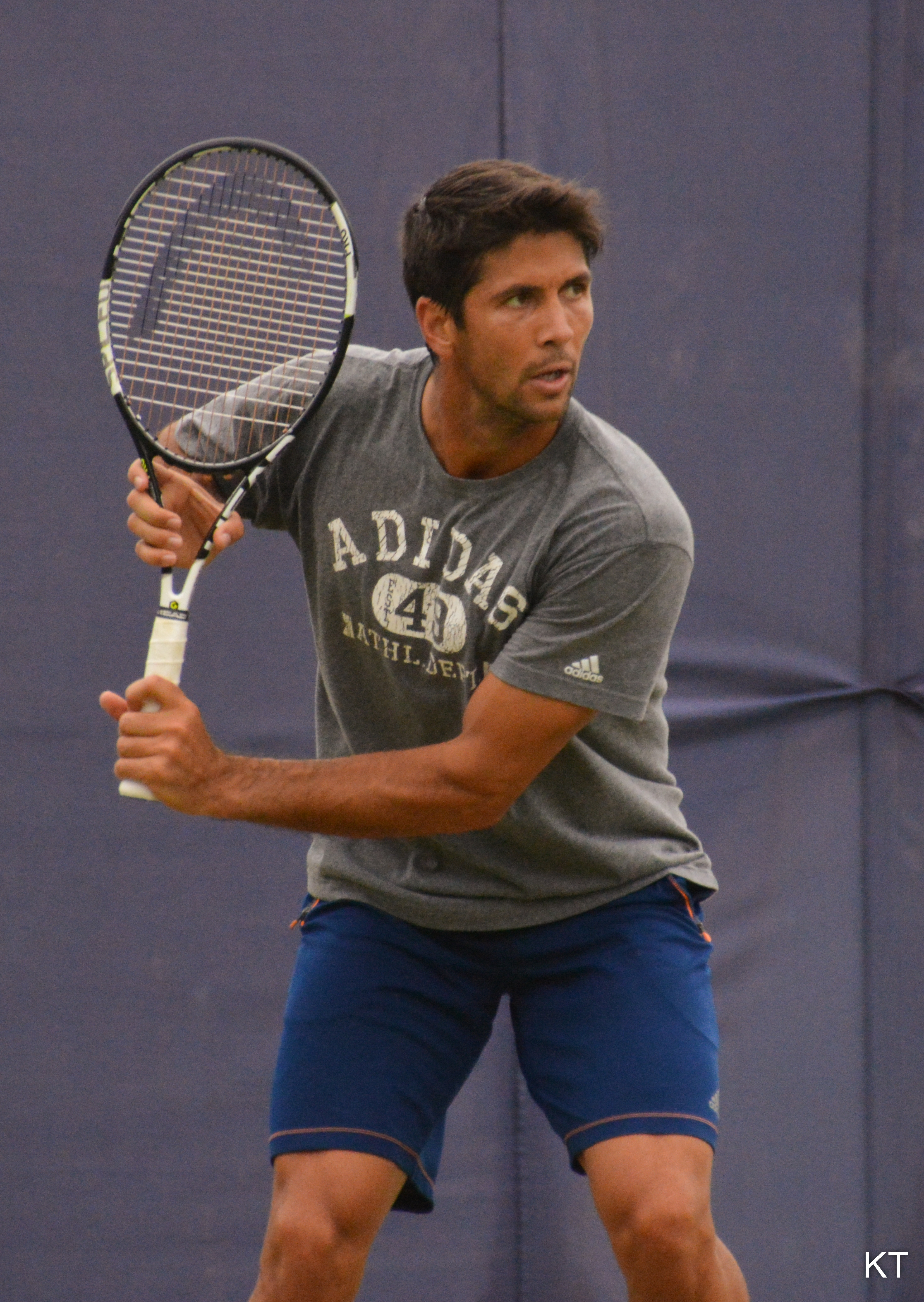 On the practice court. Aegon Championships, Queen's Club, June 2015.